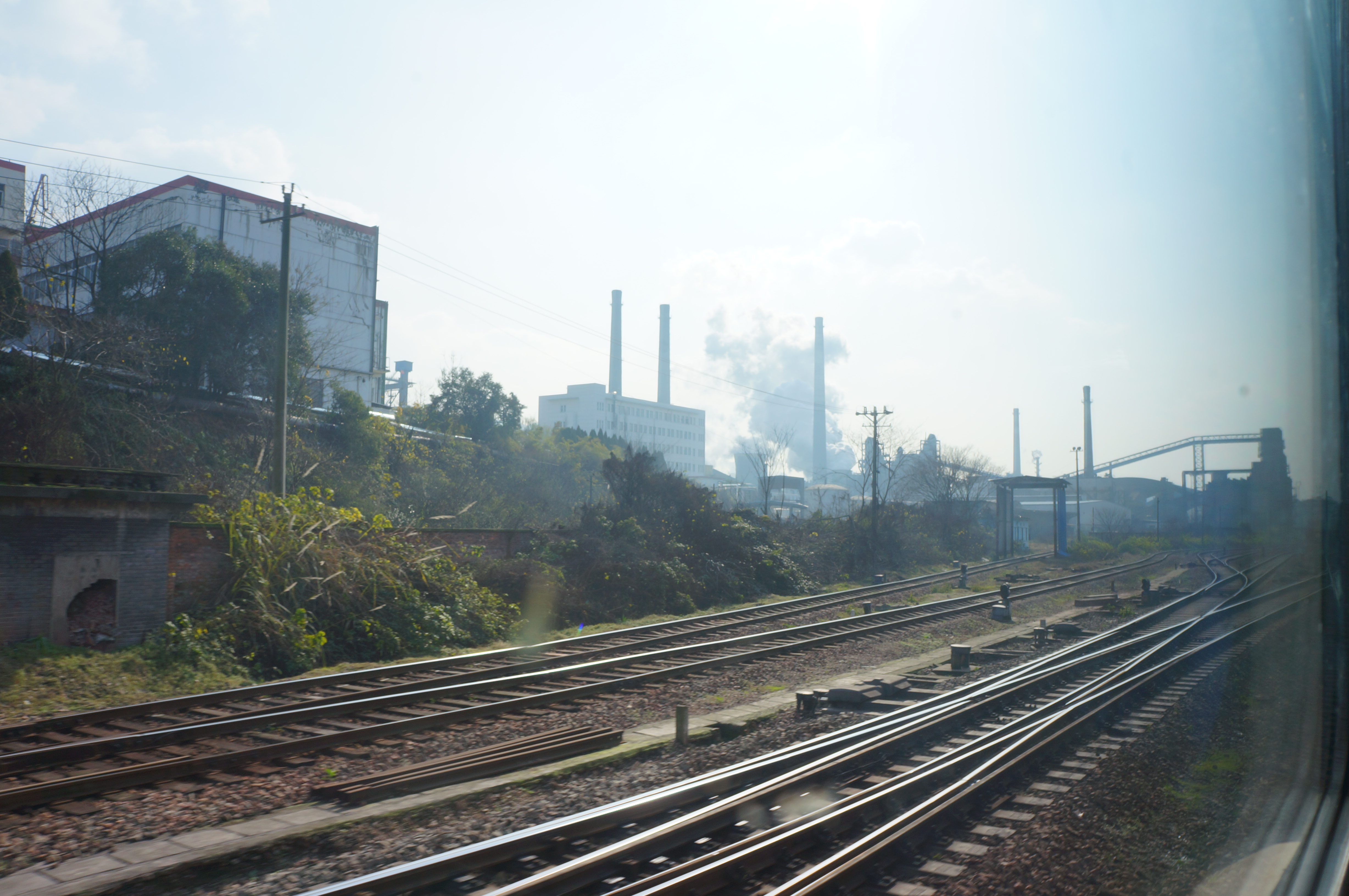 201612 Station yard of Jingdezhennan Station